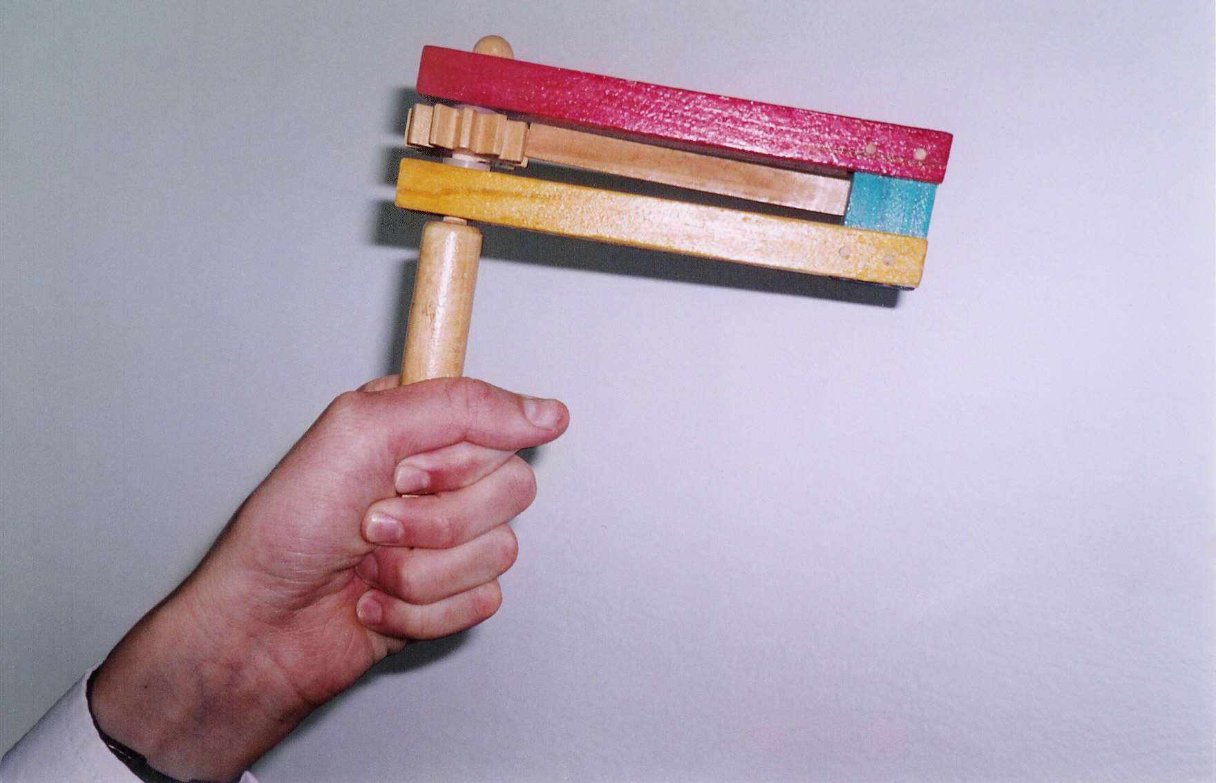 Photo of Purim grogger (ra-ashan). Photo by Yoninah 01:08, 21 March 2006 (UTC), taken on March 15, 2006.